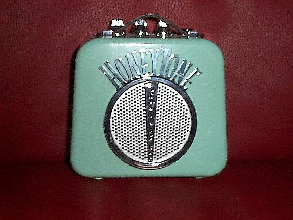 Danelectro Honeytone